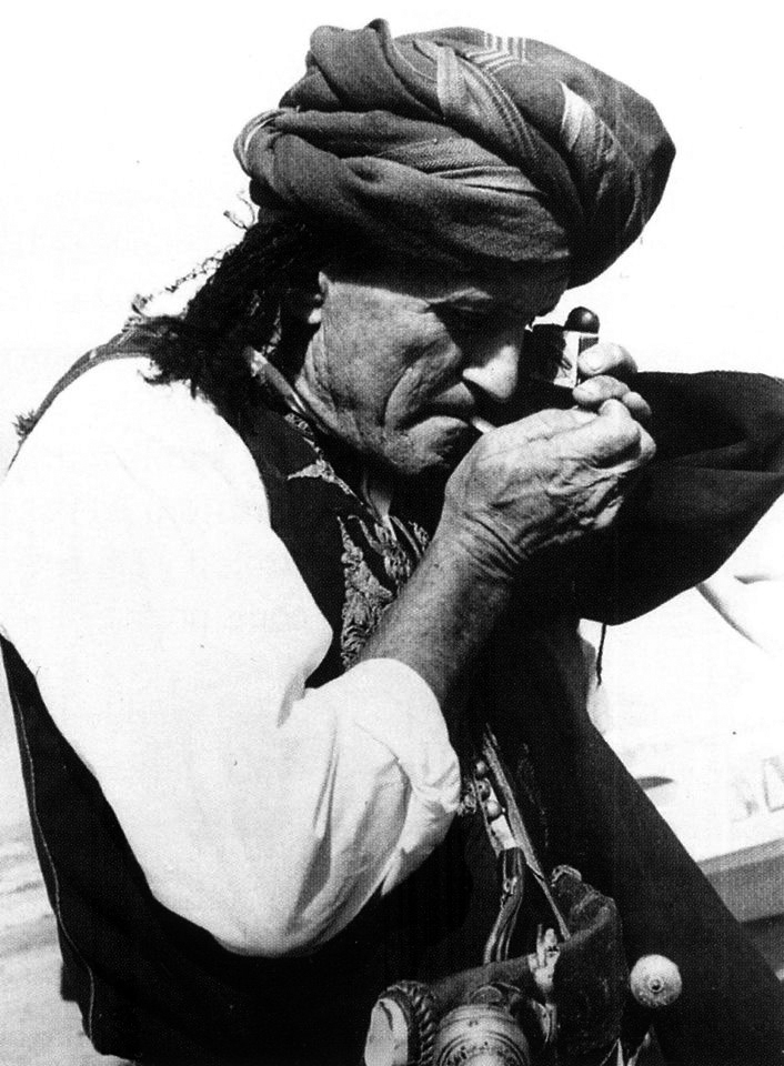 An old Croat man from Tomislavgrad lighting a cigarette in a folk costume in the 1930s